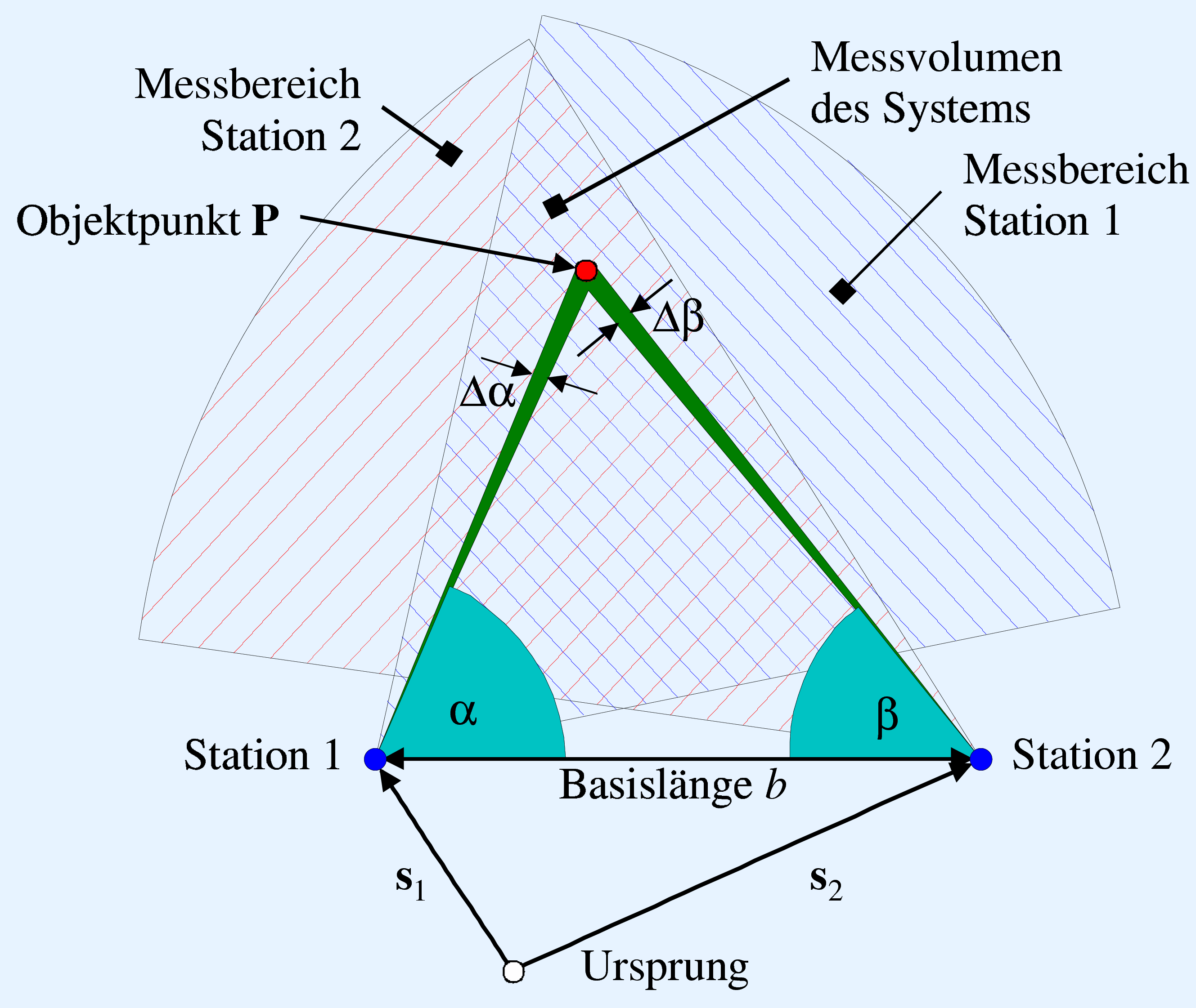 Basic principle of plane triangulation: The object point is beared from two stations at points s 1 → {\displaystyle {\vec {s_{1 and s 2 → {\displaystyle {\vec {s_{2 . The resulting direction are the angles α {\displaystyle \alpha } and β {\displaystyle \beta } . Knowing the base length b {\displaystyle b} the co-ordinates of P → {\displaystyle {\vec {P } can be calculated relativ to the origin. The measuring volume of the system is the intersection volume of the two stations.